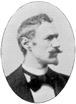 Image scanned from the book "Svenskt Porträttgalleri XX - Arkitekter, Bildhuggare, Målare m.fl. " ("Swedish Portrait Gallery XX - Architects, Sculptors, Painters, ") published 1901